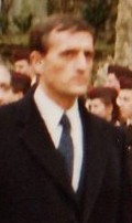 François Léotard, French politician.